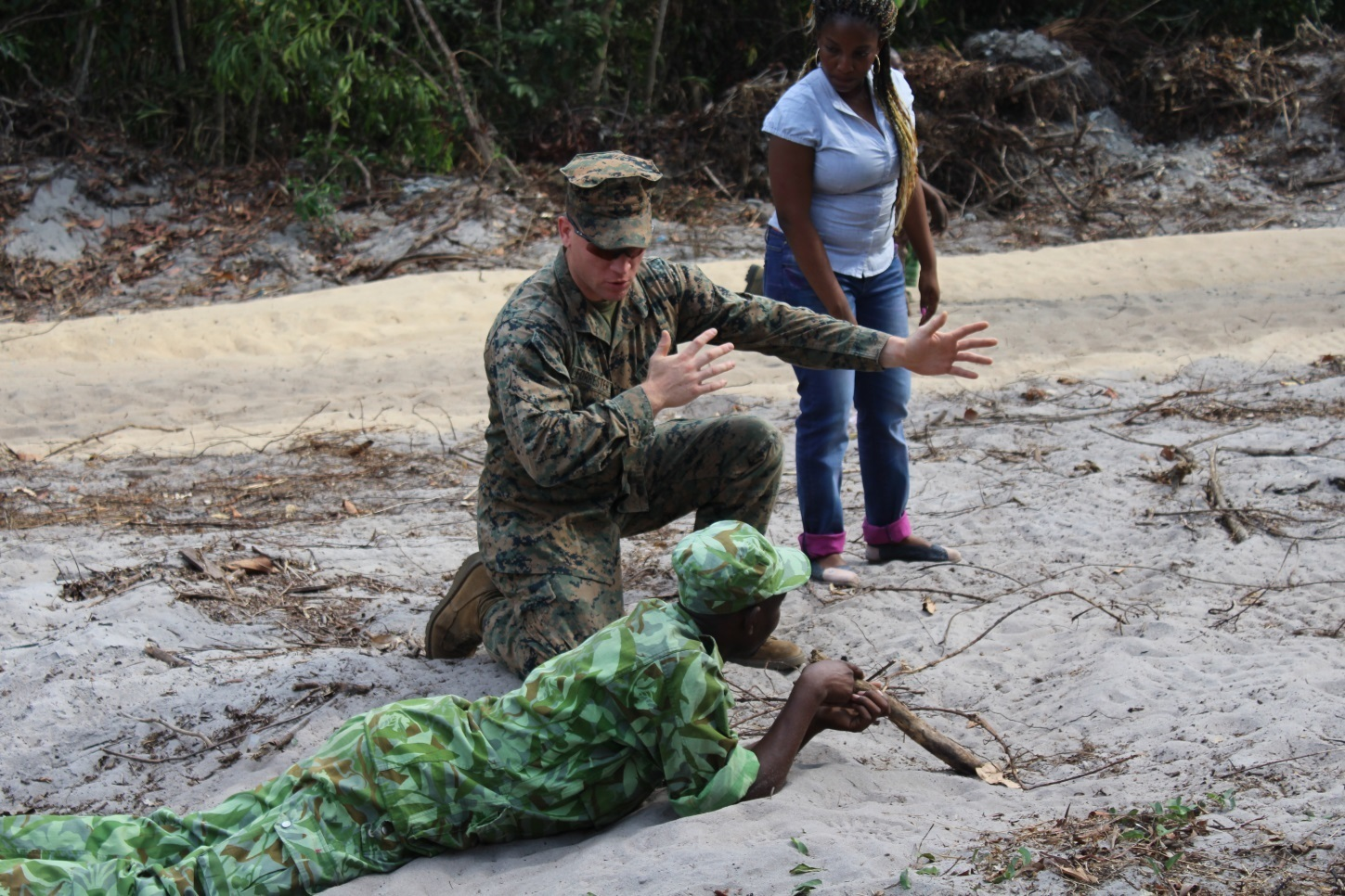 Lance Cpl. Justin Forrester teaches immediate action drills to a park ranger with the Agence Nationale des Parcs Nationaux at the Pongara National Forest in Pongara, Gabon, Sept. 17. U.S. Marines and park rangers with ANPN, worked together to help the nation's fight against wildlife trafficking. The Marines trained with the ANPN focusing on infantry tactics to help build the nation’s capacity to counter trafficking of ivory and other animal-related products. (Official U.S. Marine Corps photos by Staff Sgt. Ryan Nikzad)